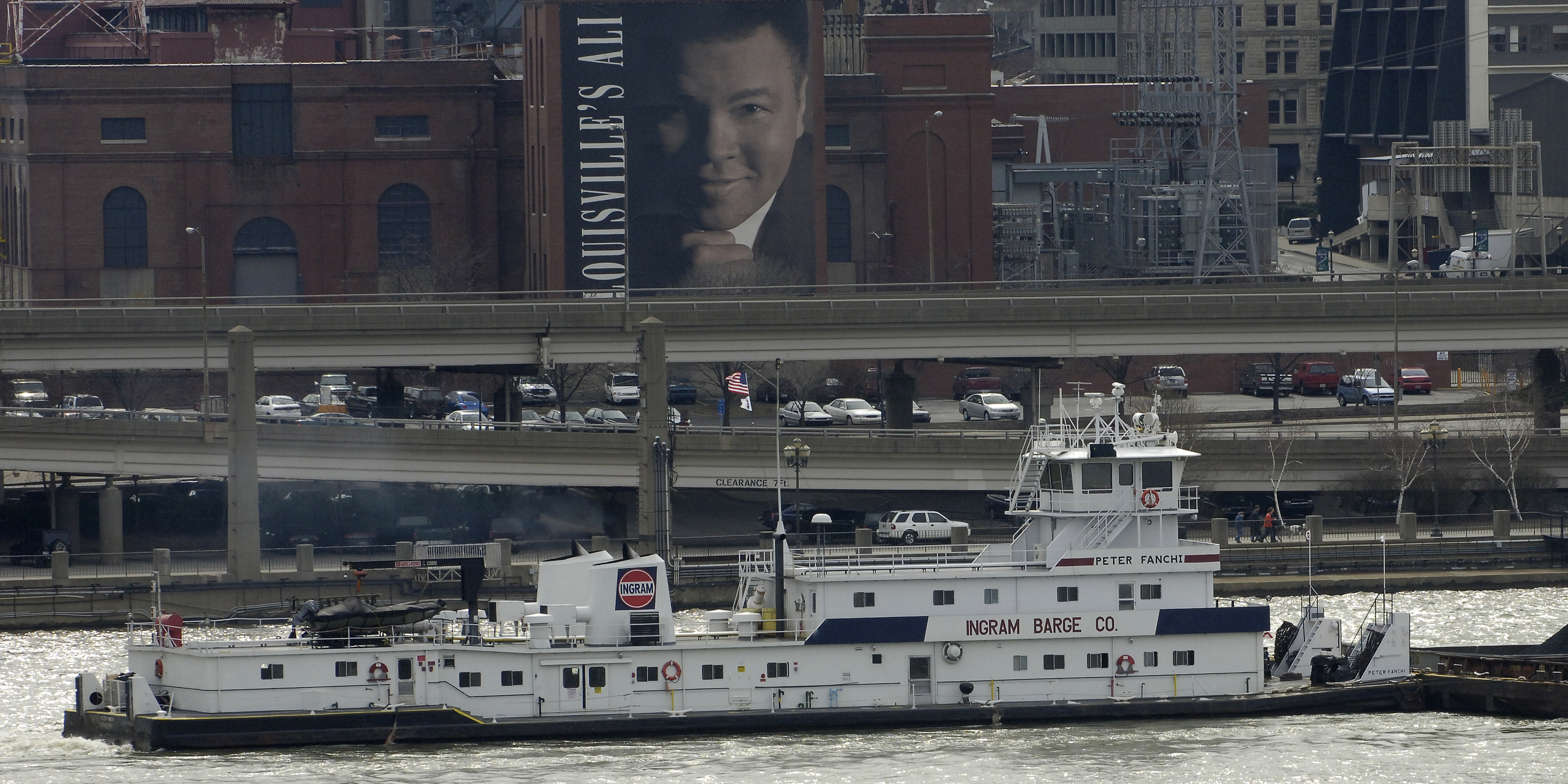 The towboat Peter Fanchi down-bound on the Ohio river at Louisville, Kentucky.